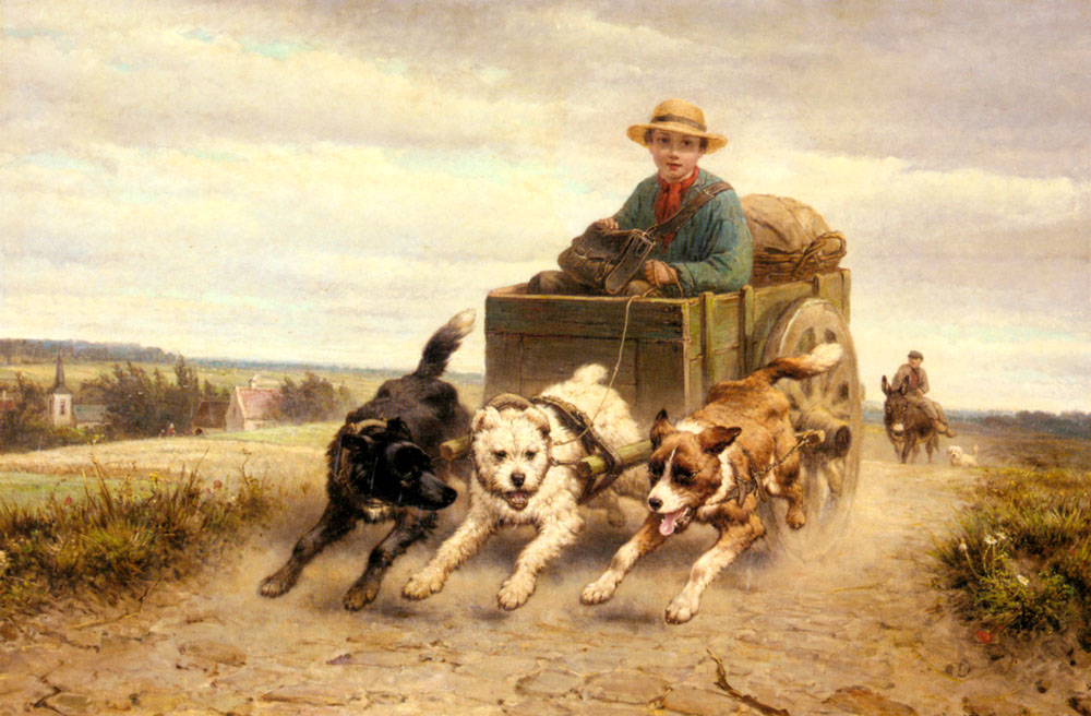 The Dog Cart